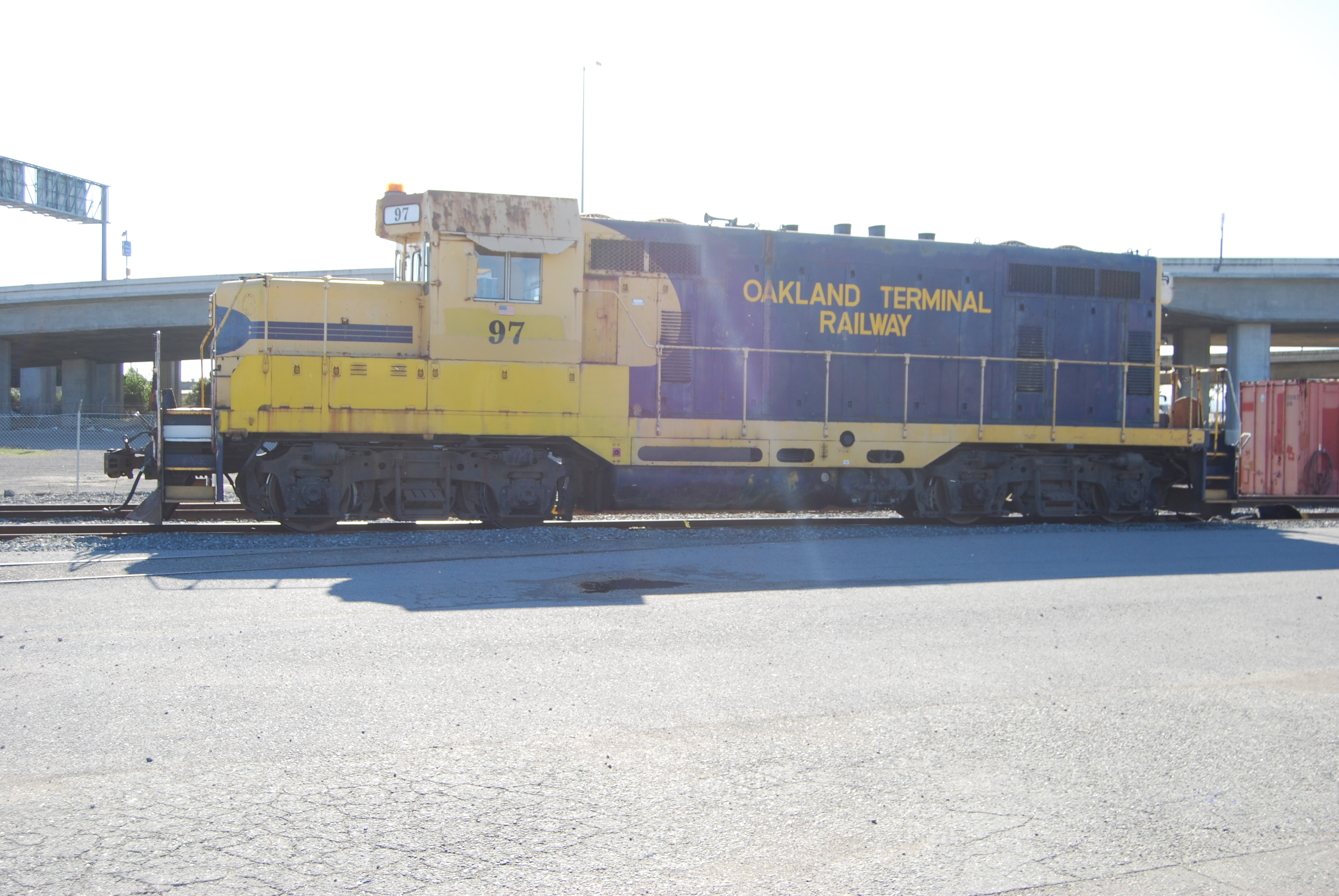 Oakland Terminal Railroad's sole locomotive, seen at its usual parking spot.